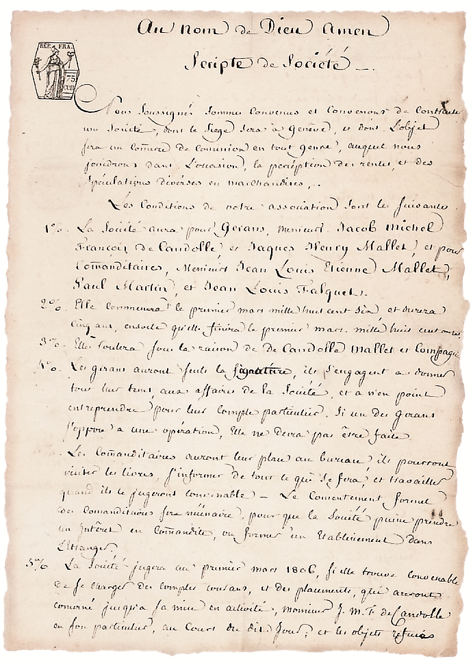 The Scripte de société (memorandum of association) for the Banque de Candolle Mallet & Cie in 1805. The Bank will later become The Pictet Group